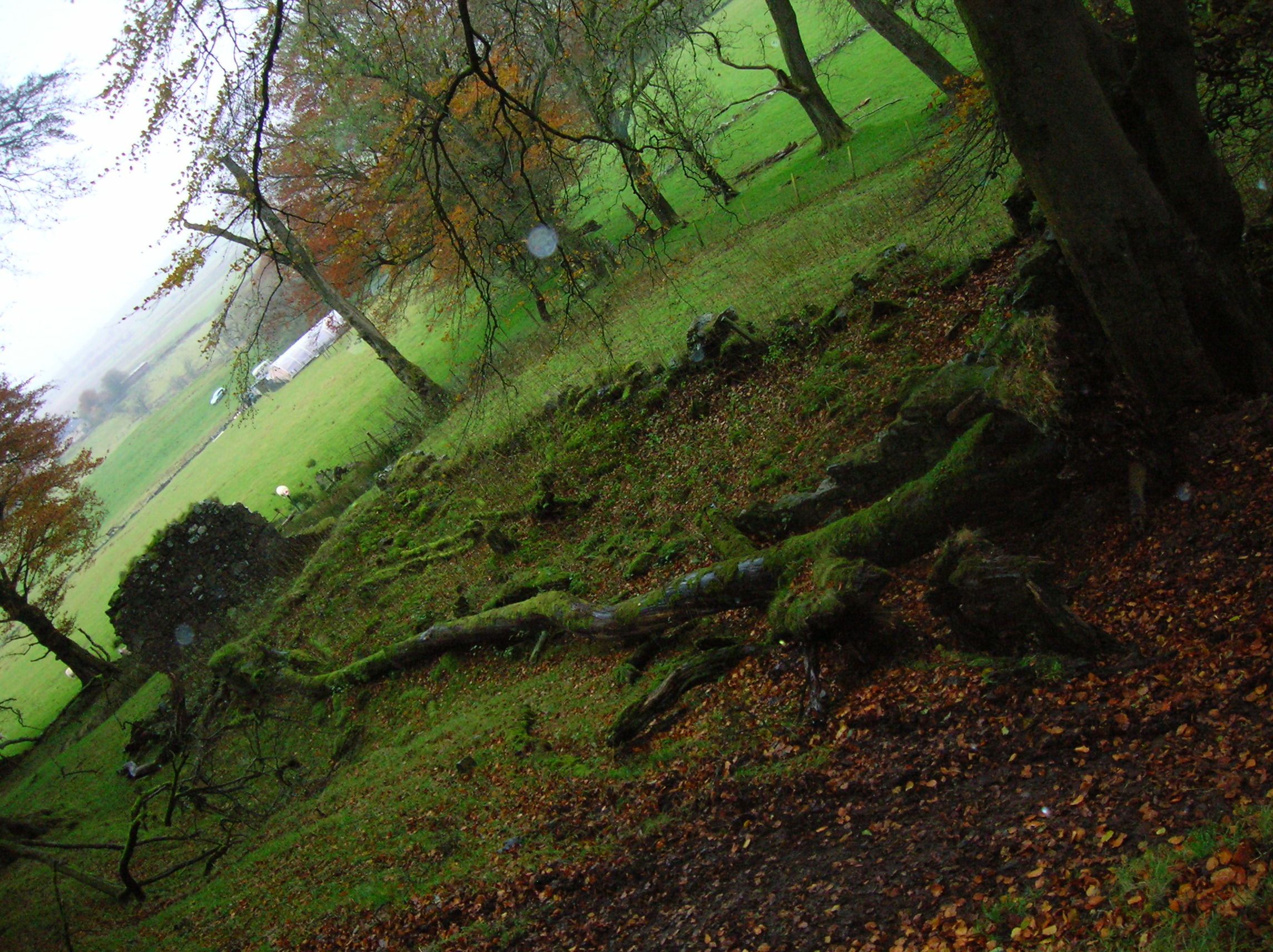 Ruins of Backhill Farm, Loudoun Hill, East Ayrshire, Scotland